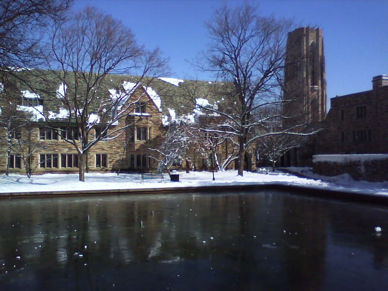 Concordia Seminary March 5, 2008 (Tim Seidenstricker photo)